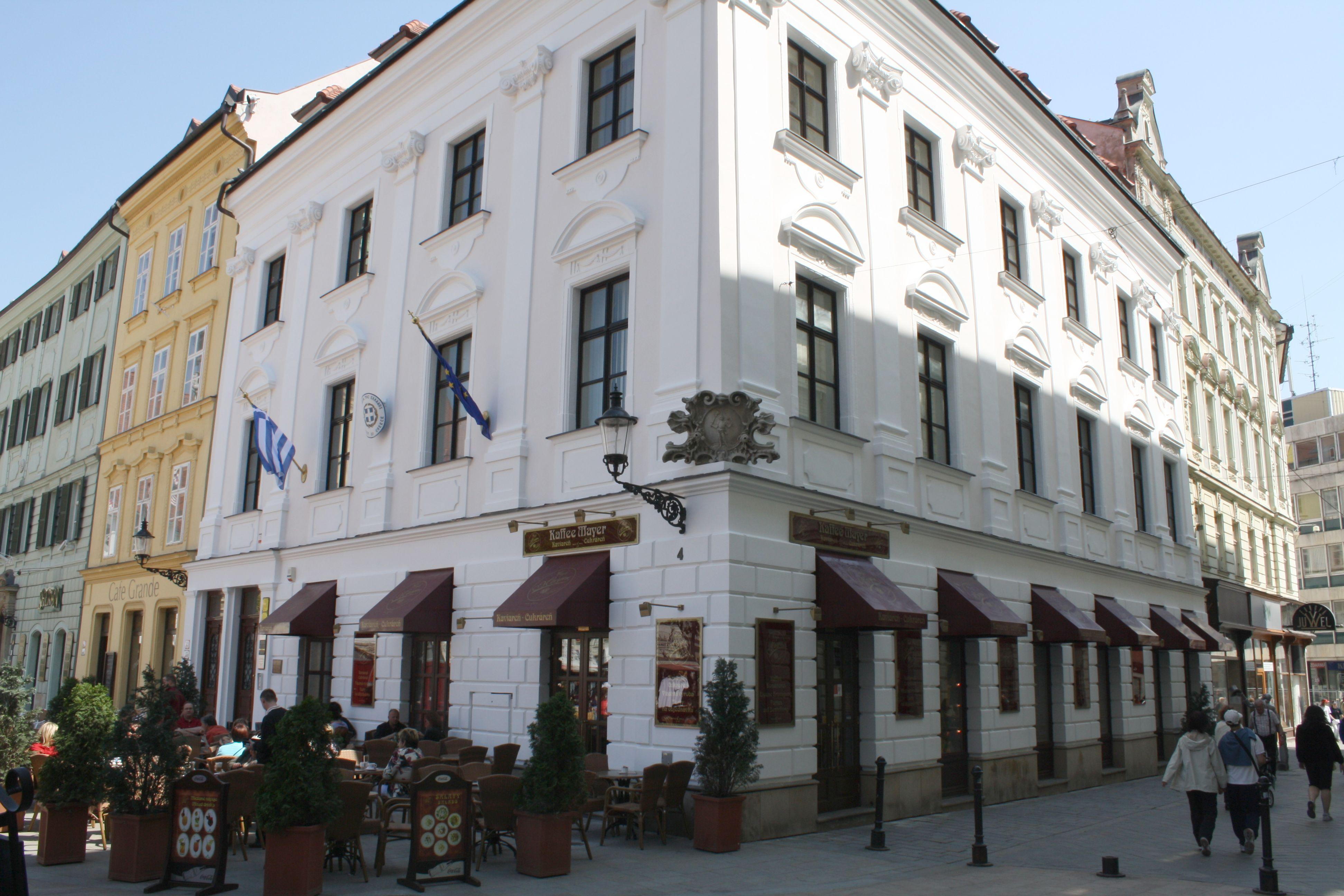 Image of the famous Café Mayer, former k.u.k. Hoflieferant (Imperial and Royal Purveyor) in Bratislava, Slovakia